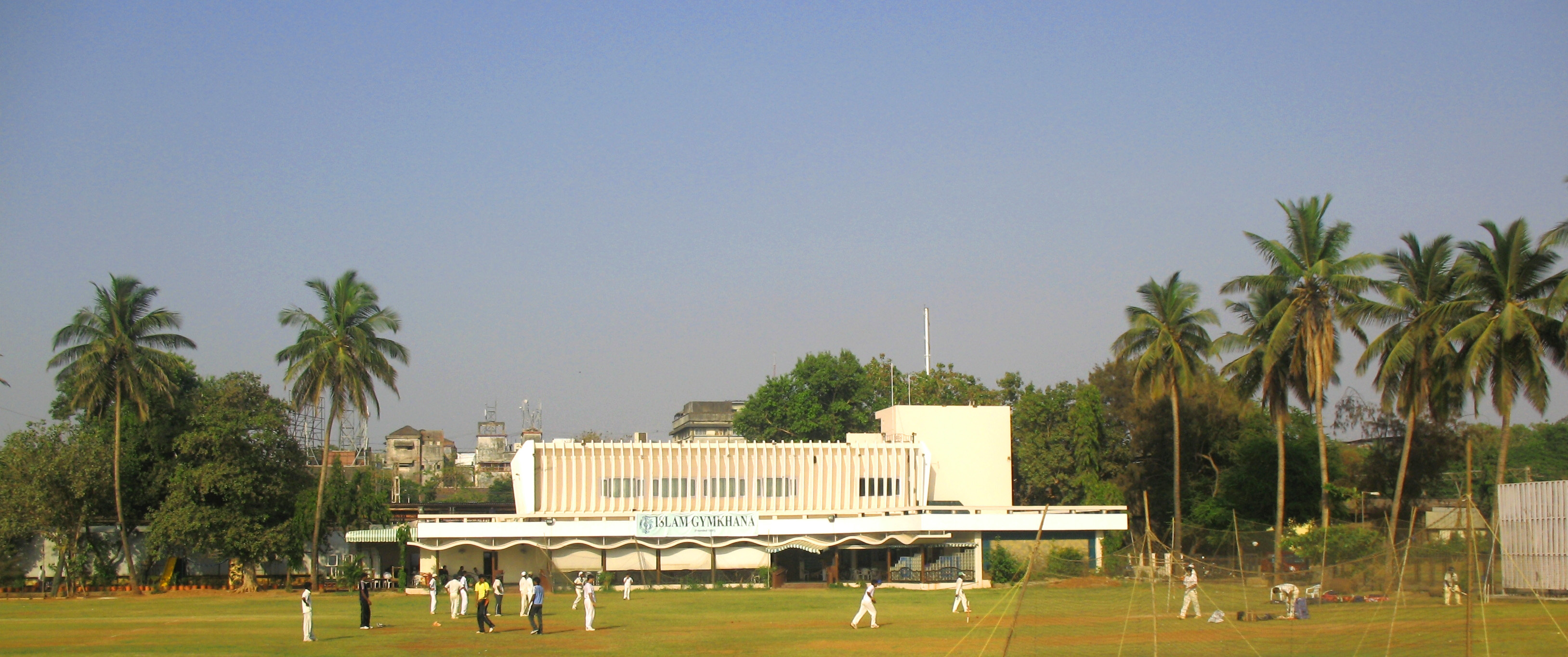 Practicing Cricket at Islam Gymkhana on Marine Drive